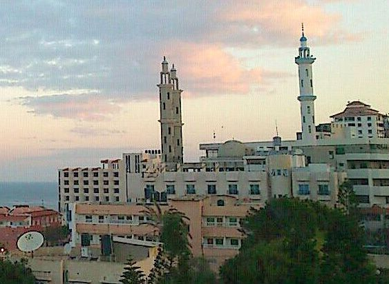 Sunrise in Gaza